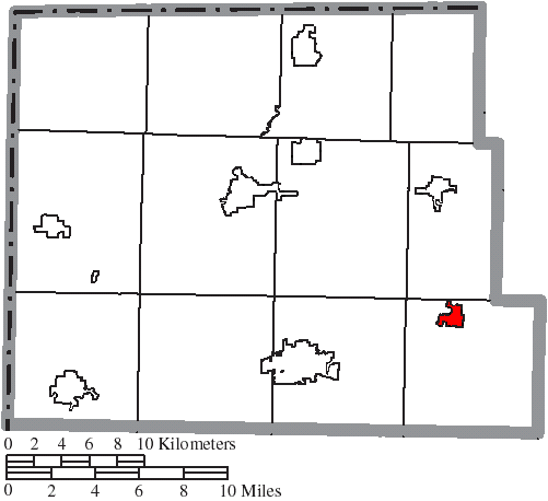 Map of the municipal and township boundaries of Williams County, Ohio, United States, as of the 2000 census, with the location of the village of Stryker highlighted. Township borders are shown only in unincorporated areas in order to differentiate incorporated and unincorporated areas more clearly.